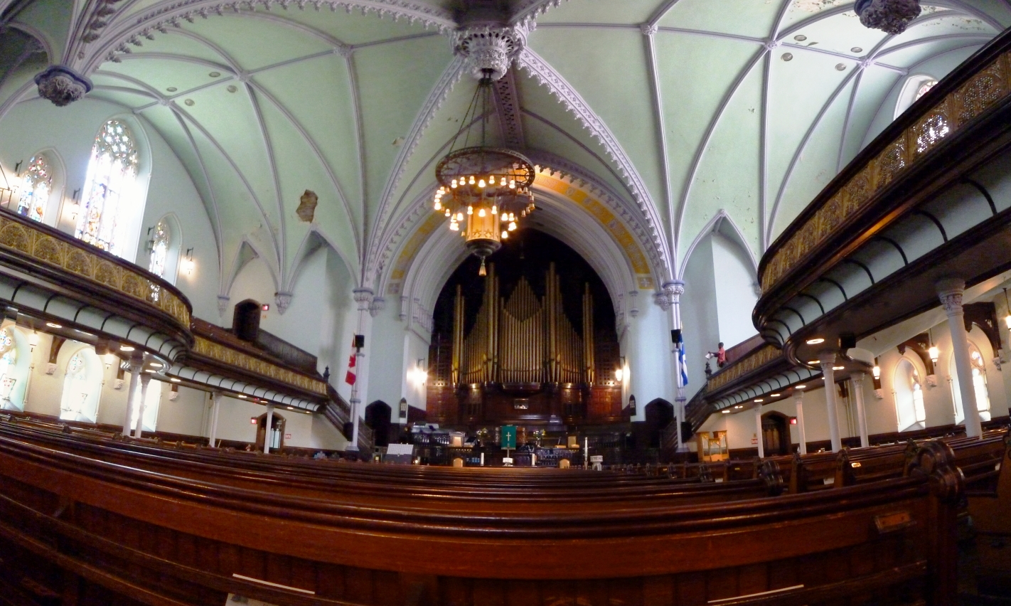 The Saint James United Church in Montreal, in Canada